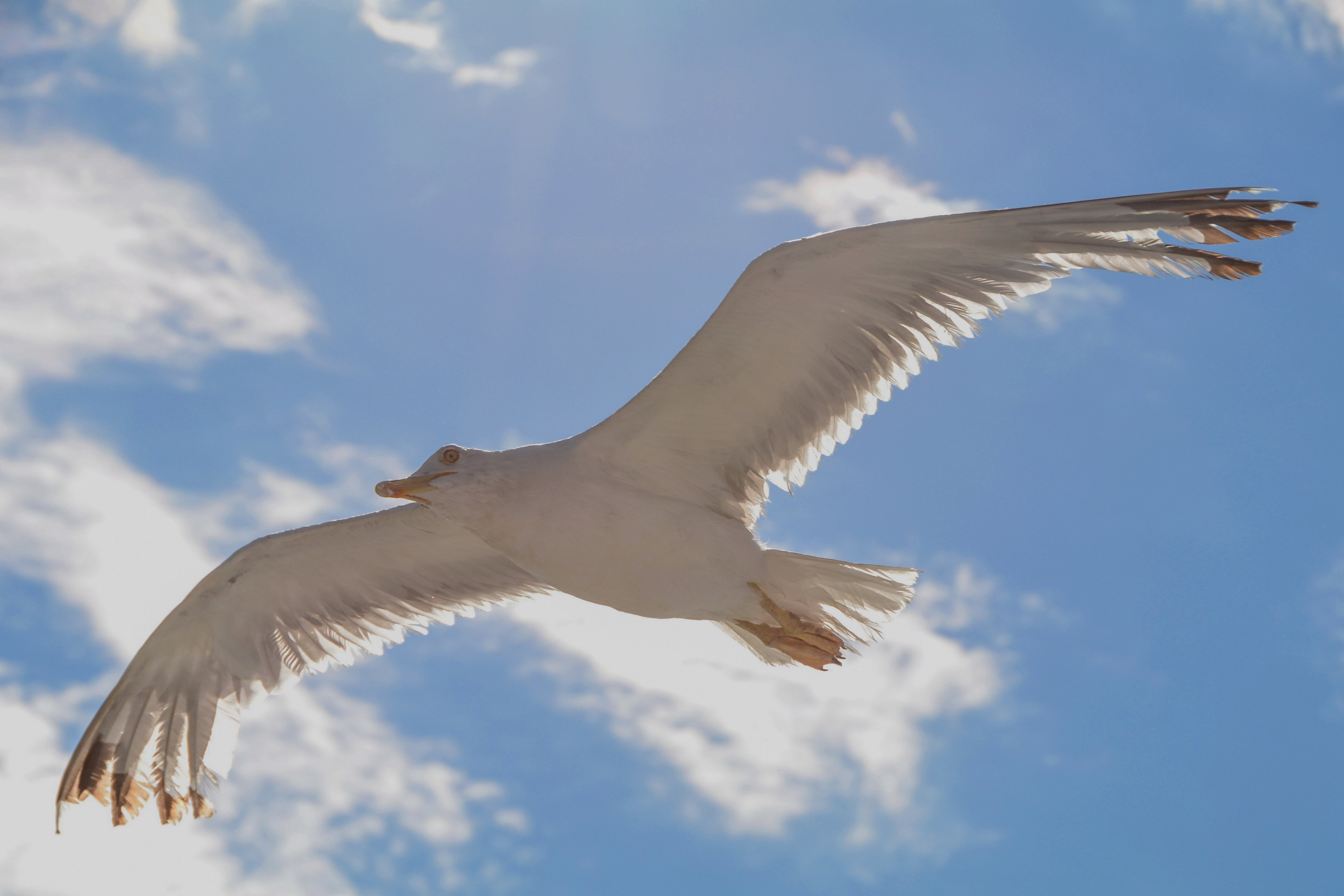 Yellow-legged gull (Larus michahellis) in flight in Venice